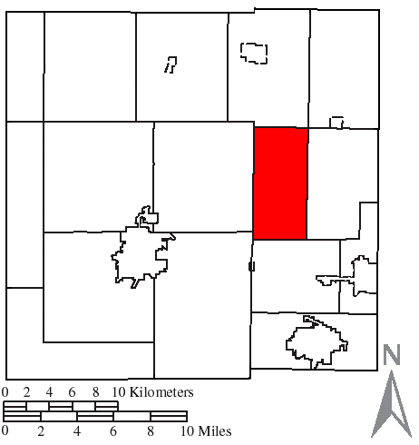 Made by the US Census and modified by myself